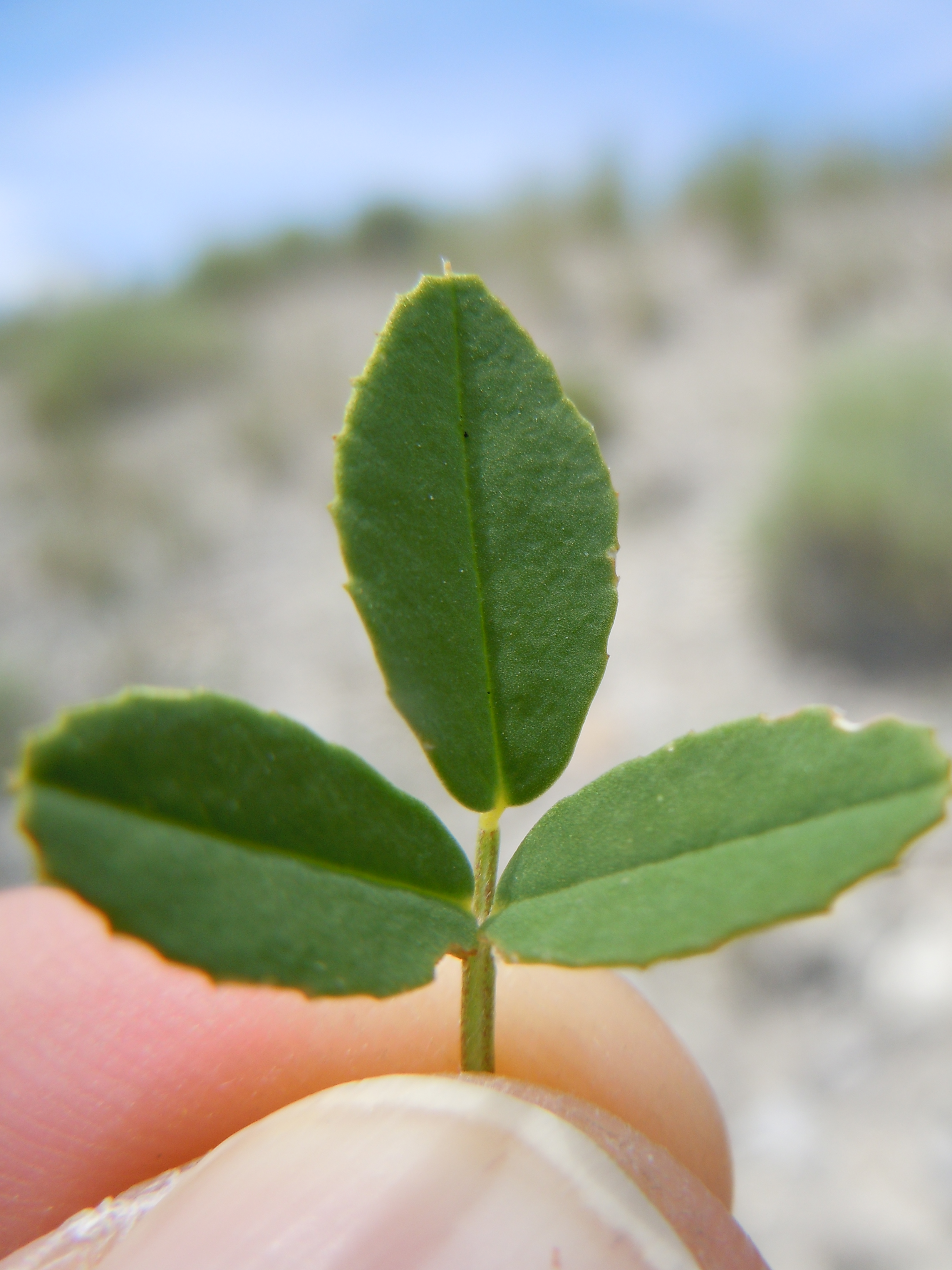 The leaf of sweetclover differs from that of alfalfa (Medicago sativa), another common roadside inhabitant, in being glabrous and with coarse marginal teeth from near the base to the tip of the leaf blade.